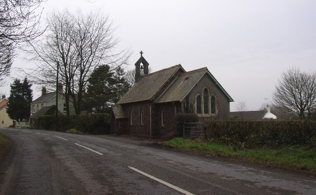 Road and Church at Princes Gate, Lampeter Velfrey. St Catherine's Church is a small mission church, built in 1888. The chancel was added in 1909. Princes Gate is a hamlet that has grown up at a cross-roads (does 'Gate' refer to a turnpike?).